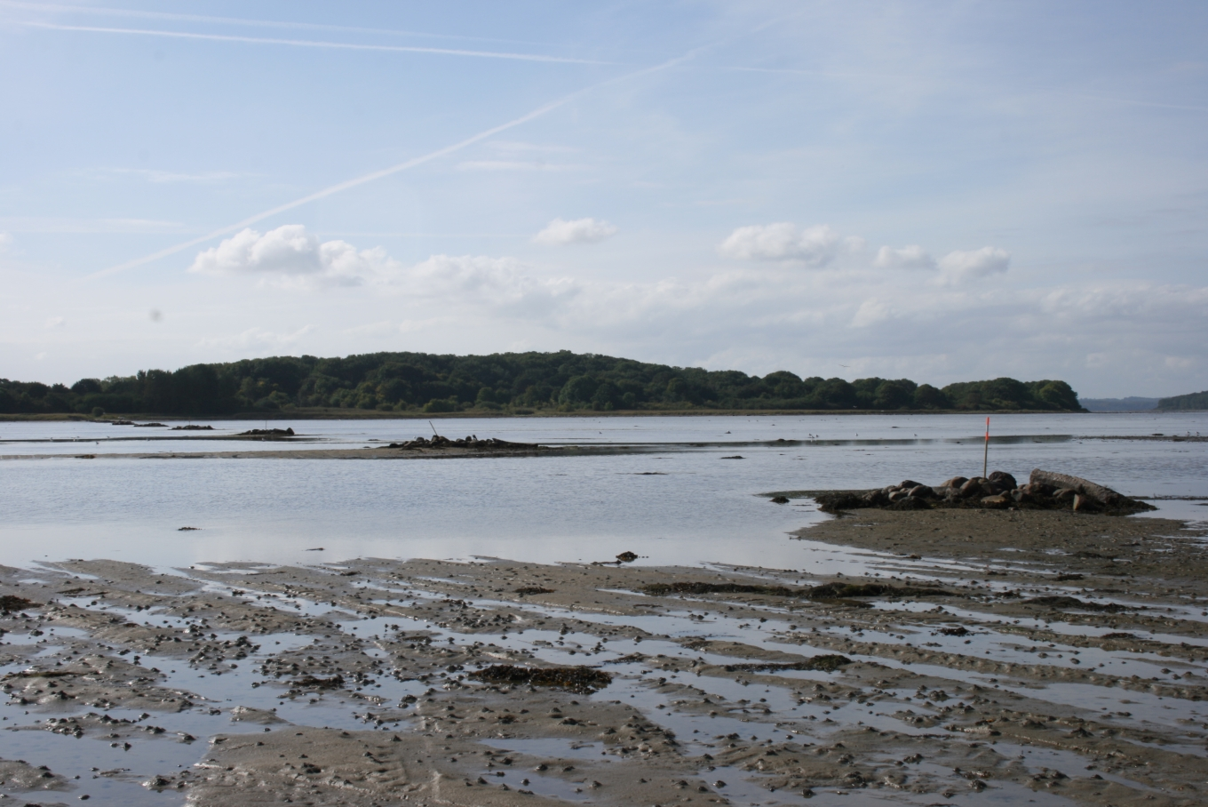 Ford at the small island Vorsø in Denmark.